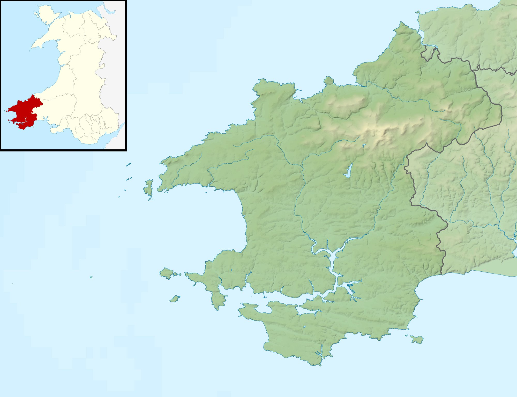 Relief map of Pembrokeshire, UK. Equirectangular map projection on WGS 84 datum, with N/S stretched 160% Geographic limits: West: 5.70W East: 4.45W North: 52.15N South: 51.55N